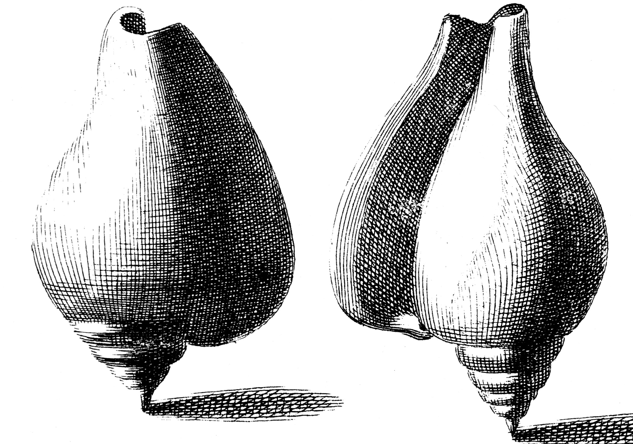 A drawing of Laevistrombus canarium Linnaeus, 1758